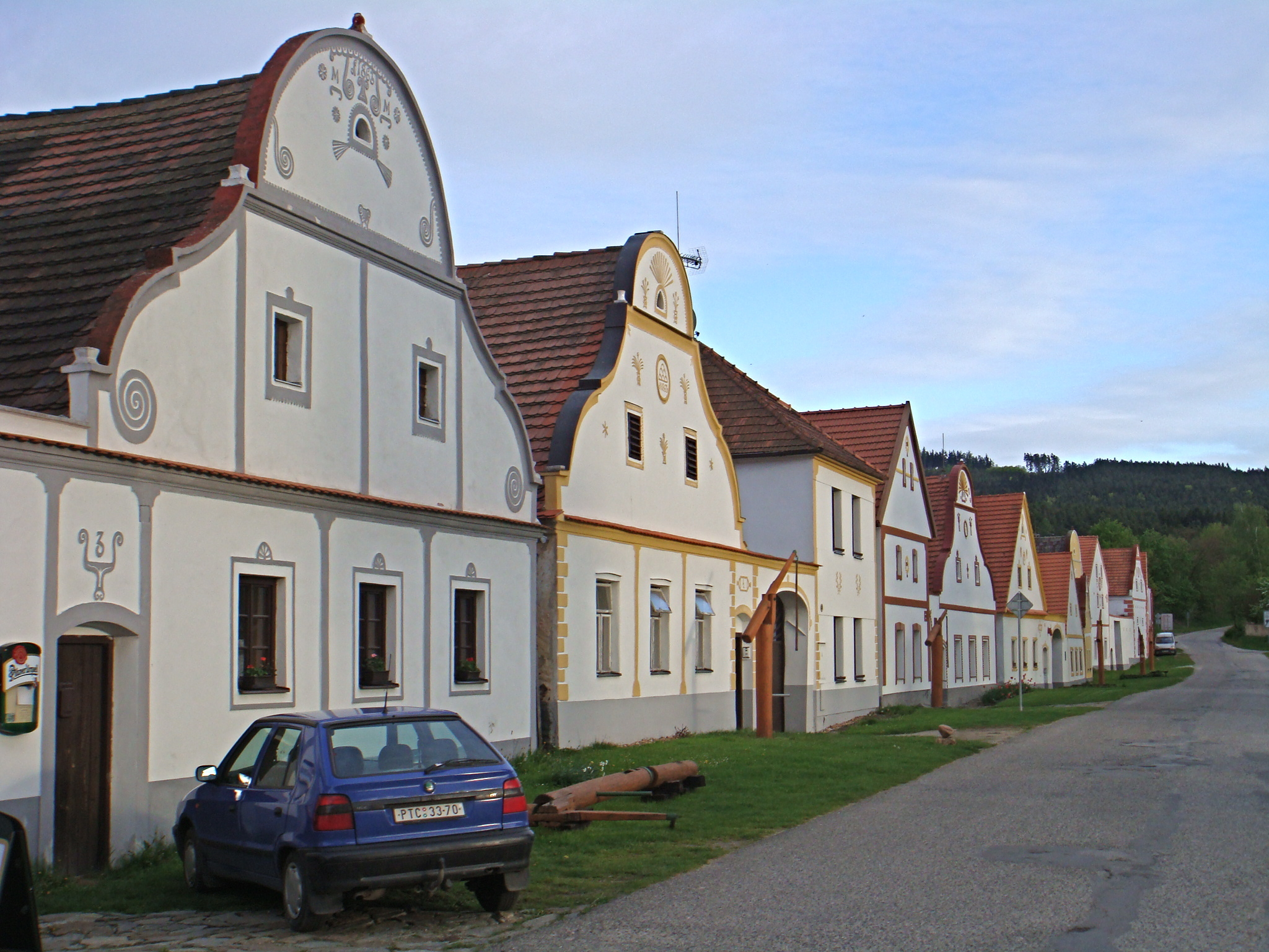 Holašovice Historic Village (Czech Republic)